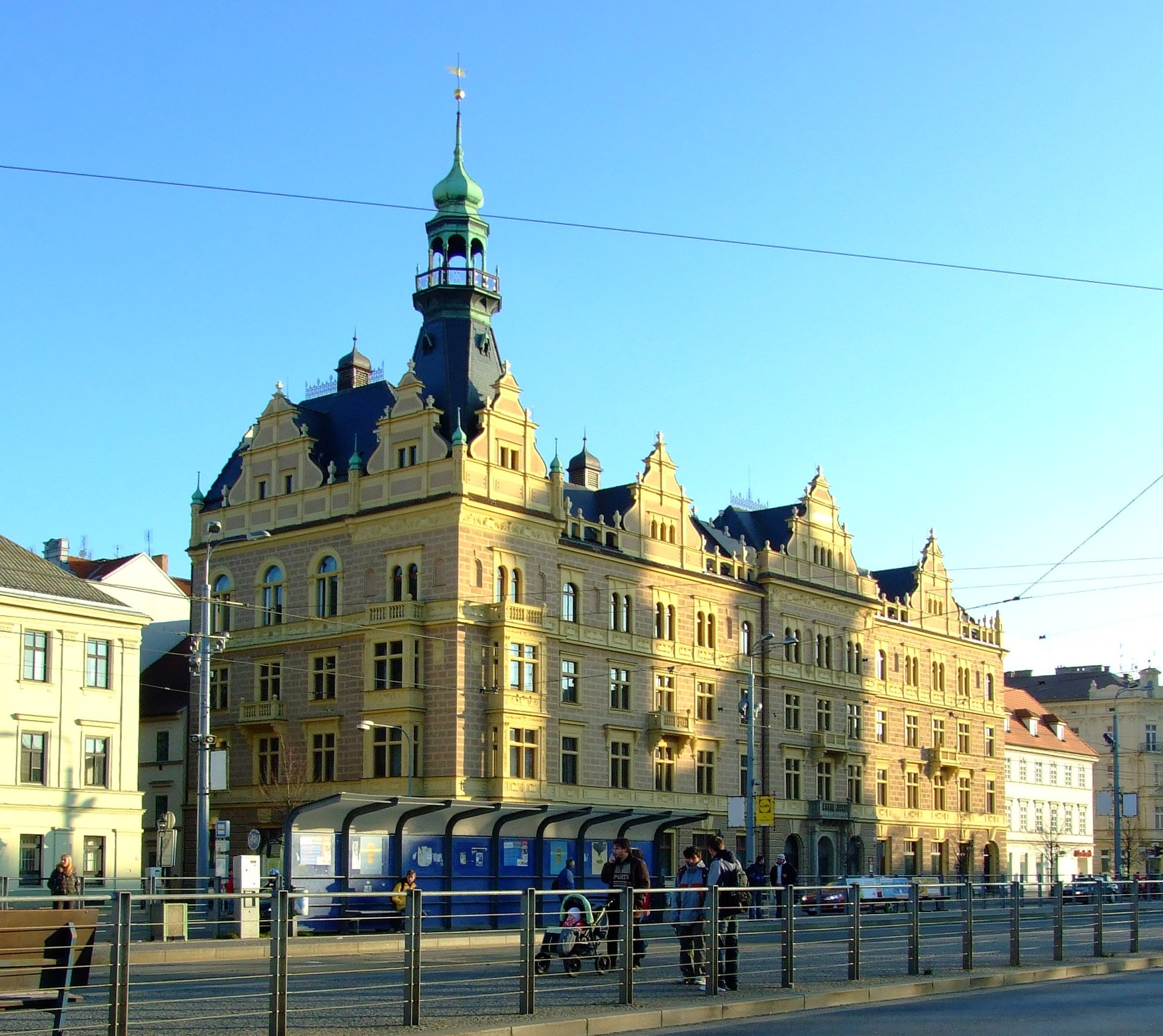 Pilsen, CZ, Faculty of Lawhelp